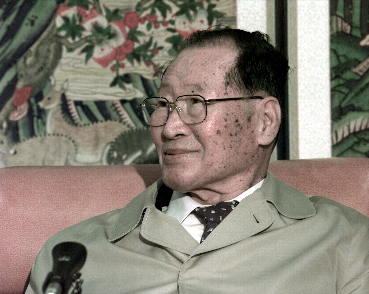 South Korean business tycoon Chung Ju-yung, founder and honorary chairman of Hyundai Group, speaks to the press at Panmunjom Freedom House, Republic of Korea, Oct. 27, 1998. Mr. Chung donated 501 head of cattle and the 50 vehicles to North Korea. Chung had given the North Koreans 500 head of cattle earlier in June 1998. Location: Panmunjom, DMZ Korea.